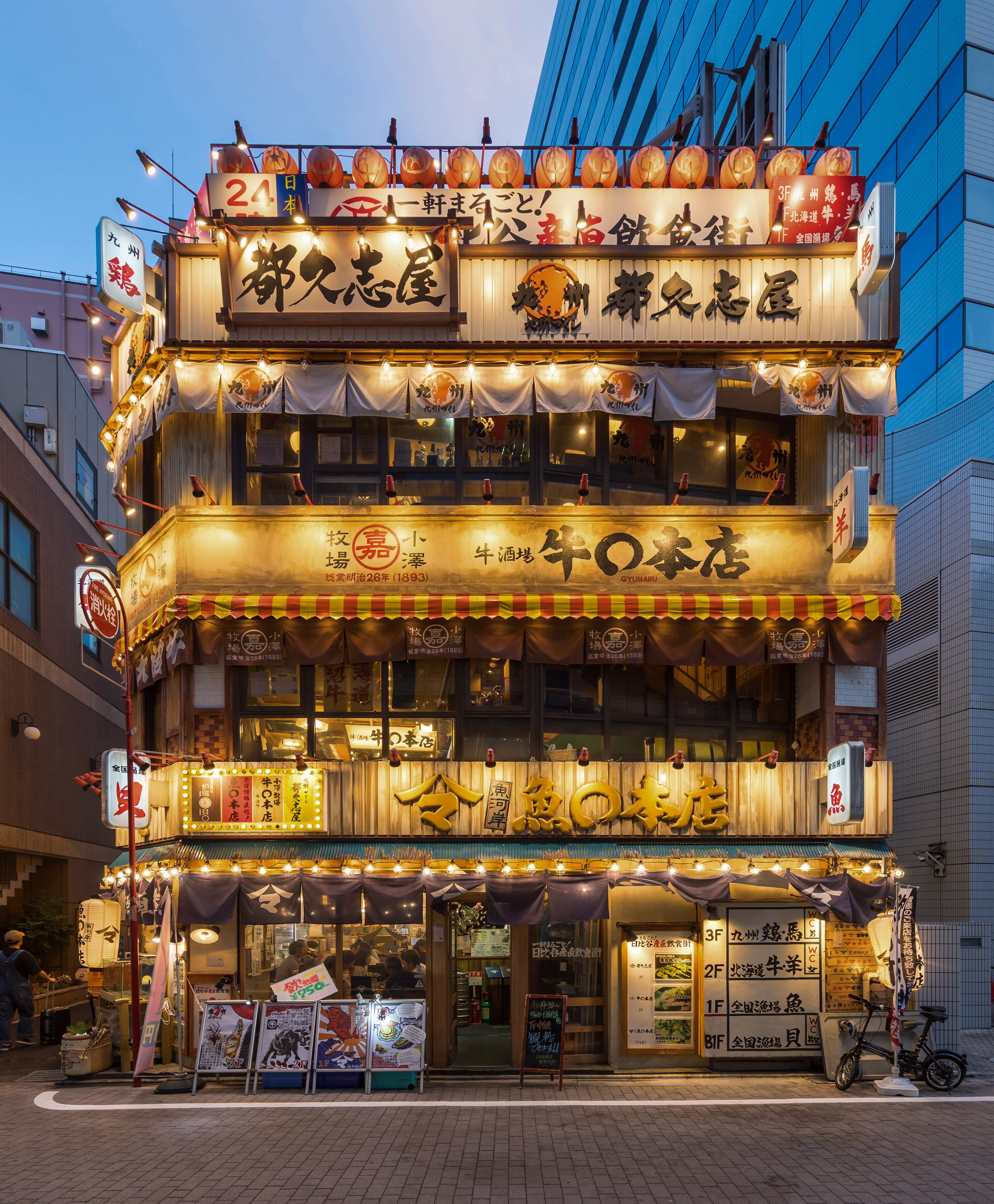 Illuminated facade of a 3-storey restaurant with Japanese signs and red paper lanterns, at blue hour, in Yūrakuchō, Chiyoda, Tokyo, Japan.